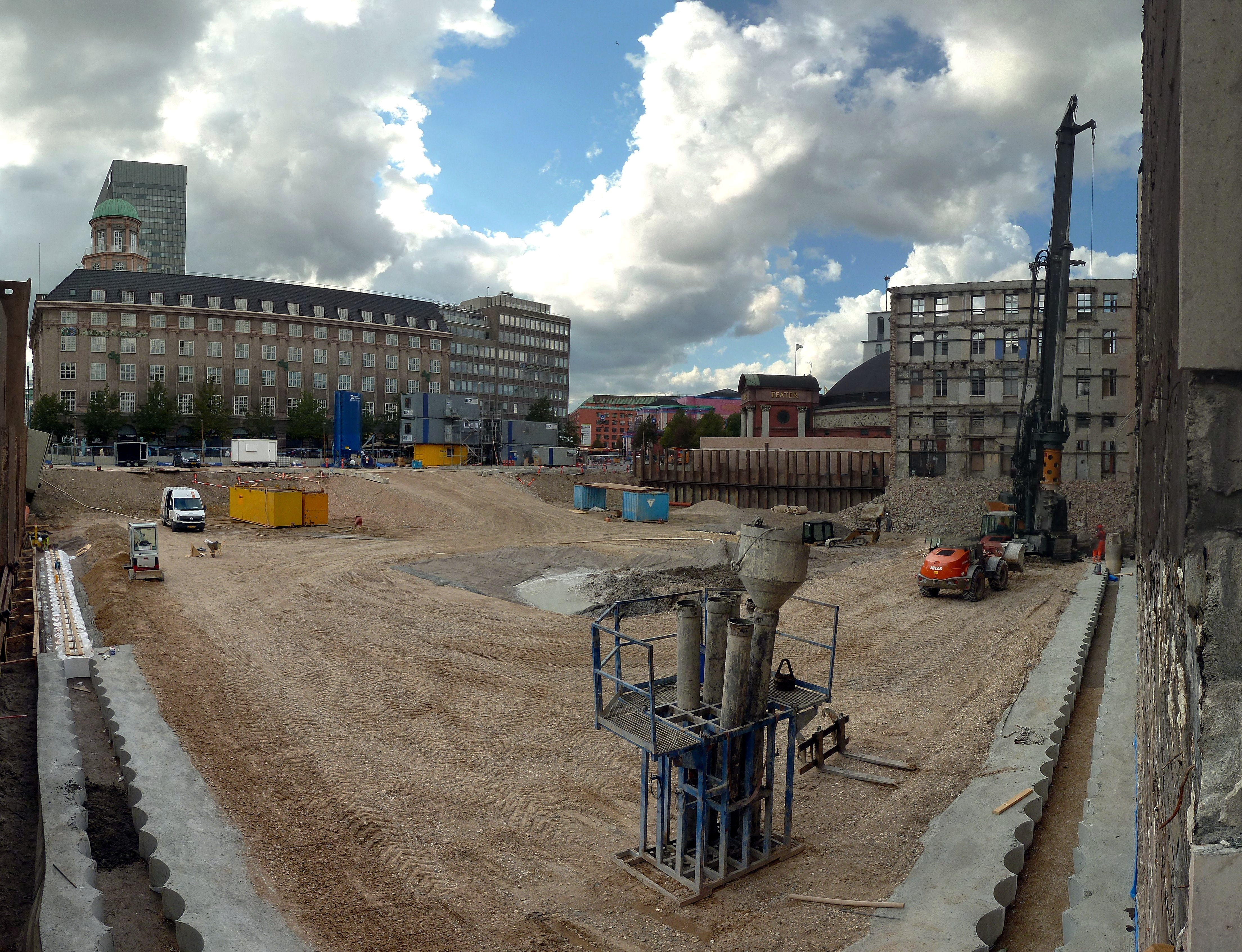 Axeltorv 2 Construction site in Copenhagen, Denmark